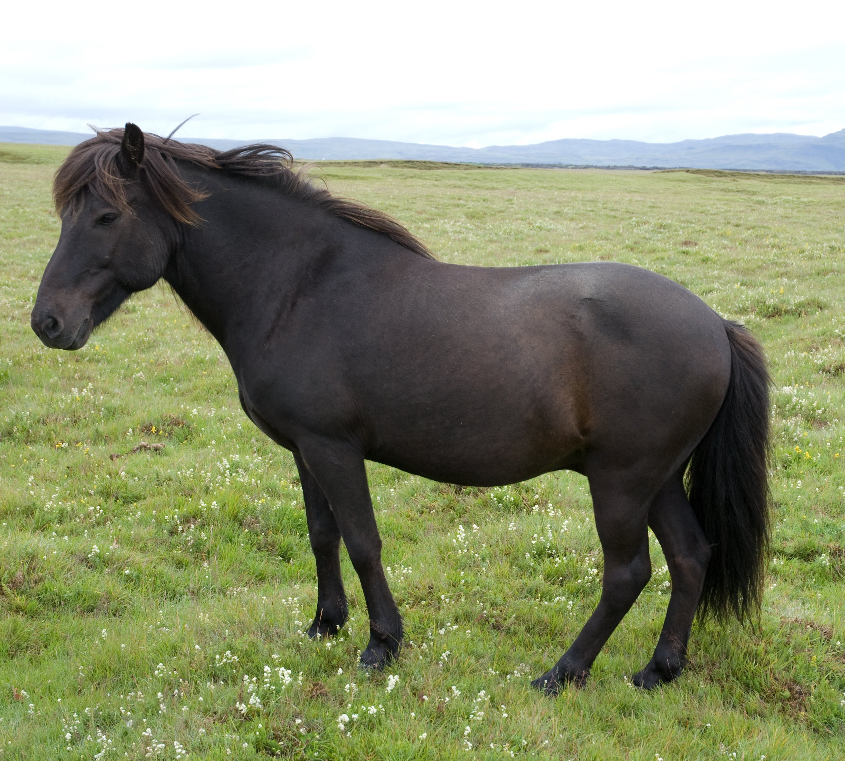 Iceland